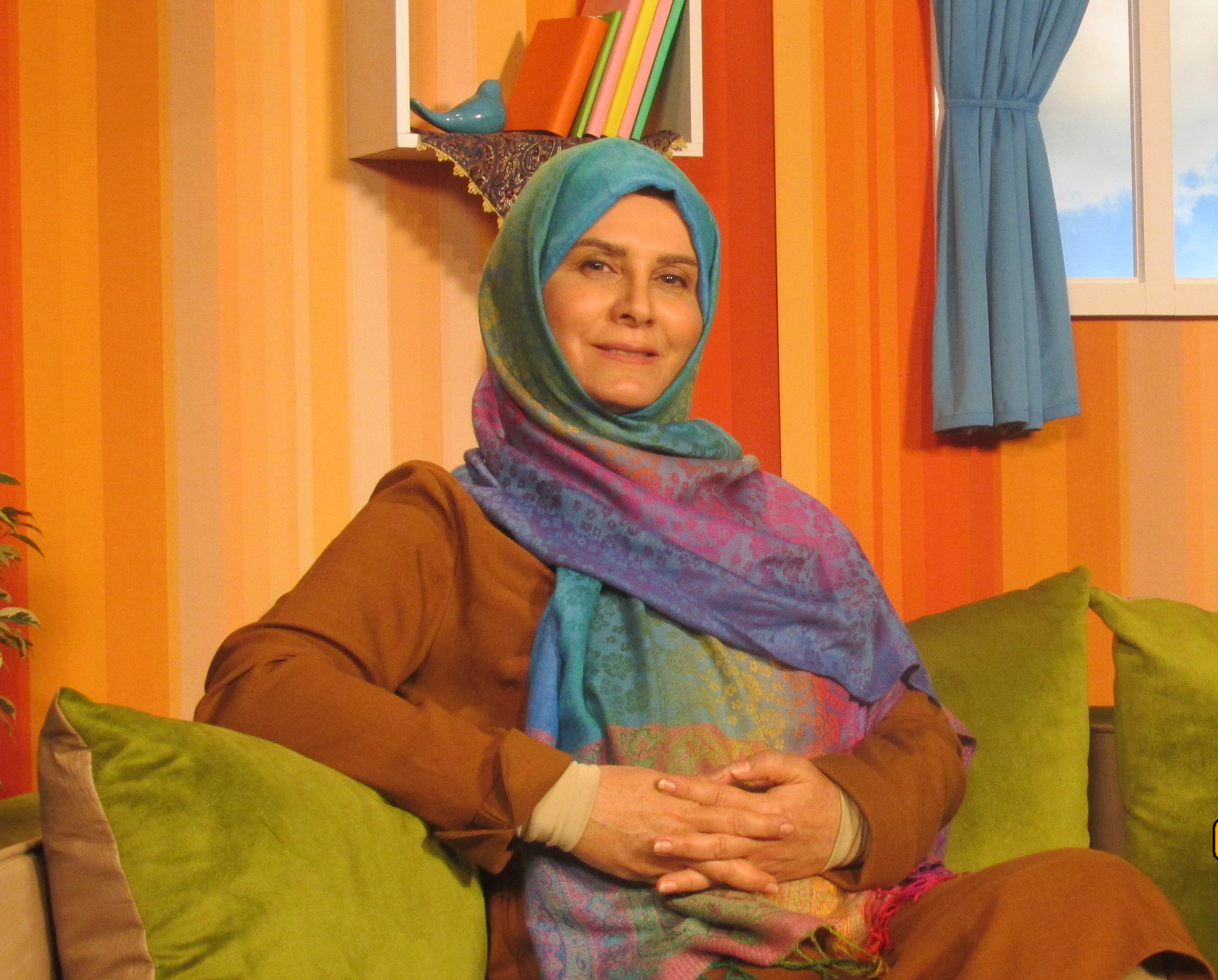 Giti Khameneh Iranian TV host, photo was taken in Ofogh Studio in IRIB